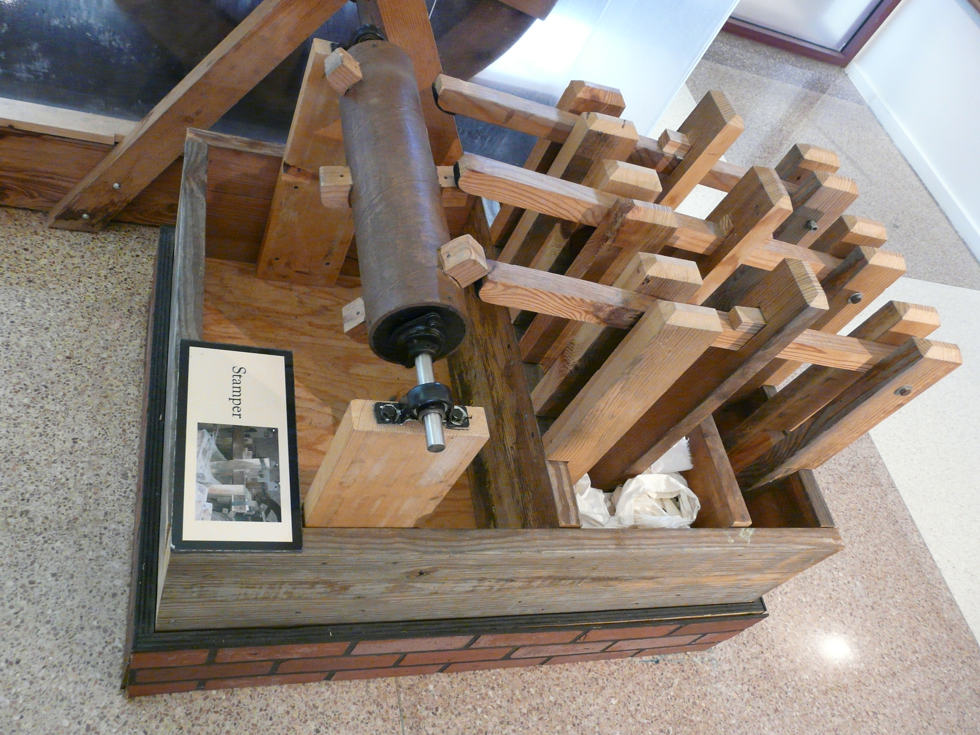 Robert C. Williams Paper Museum Stamper. Used in paper making